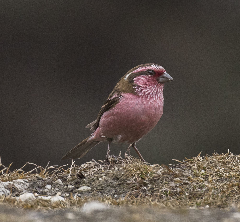 White-browed Rosefinch - Eaglenest - India_FJ0A7974